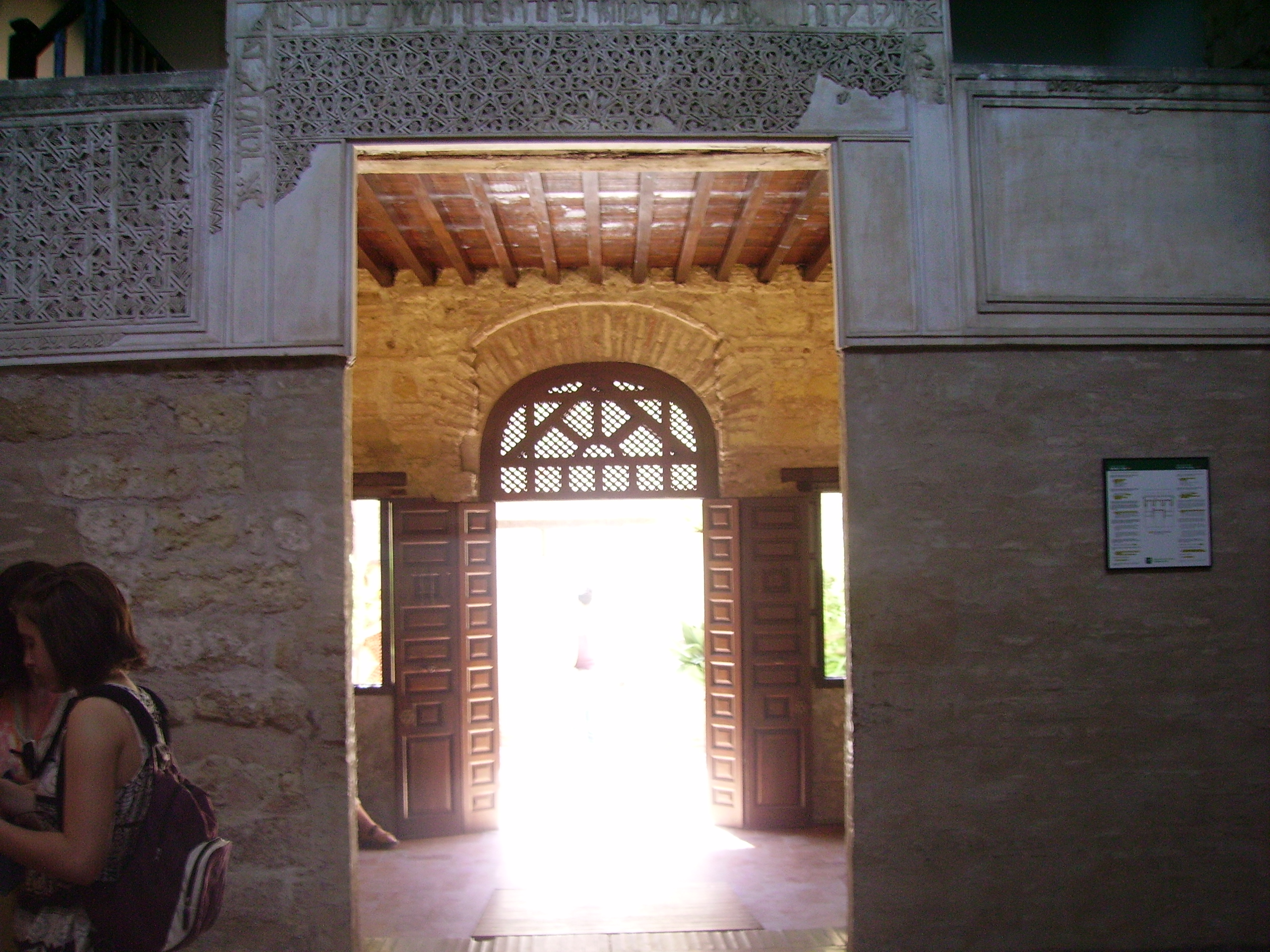 Main door of the Synagogue of Córdoba, in Córdoba (Spain).